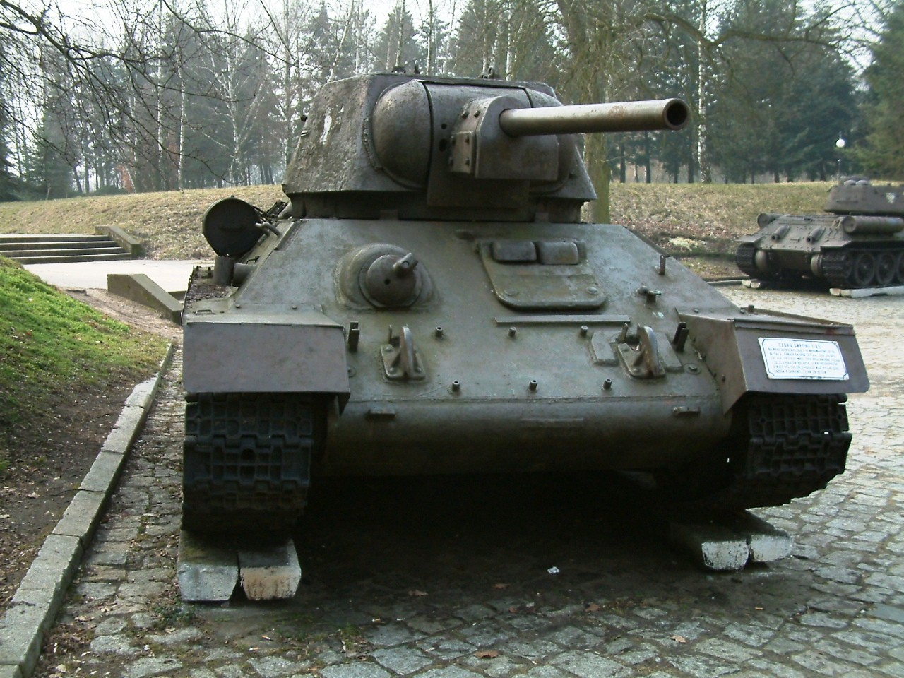 T-34/76 in Poznań, Poland